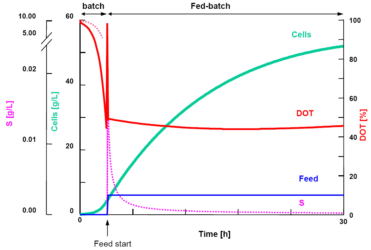 The graph shows the principle of a substrate limited fed-batch cultivation with an initial batch phase. After consumption of the initial substrate a continuous feed of this substrate is started.